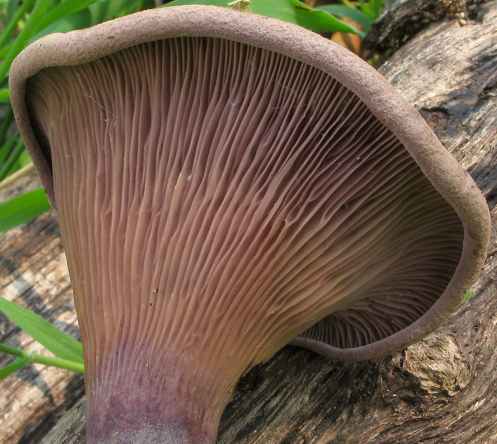 Panus conchatus (Bull.) Fr. Image location: Fair Oaks, California, USA On an oak log. Recognized by sight For more information about this, see the observation page at Mushroom Observer.